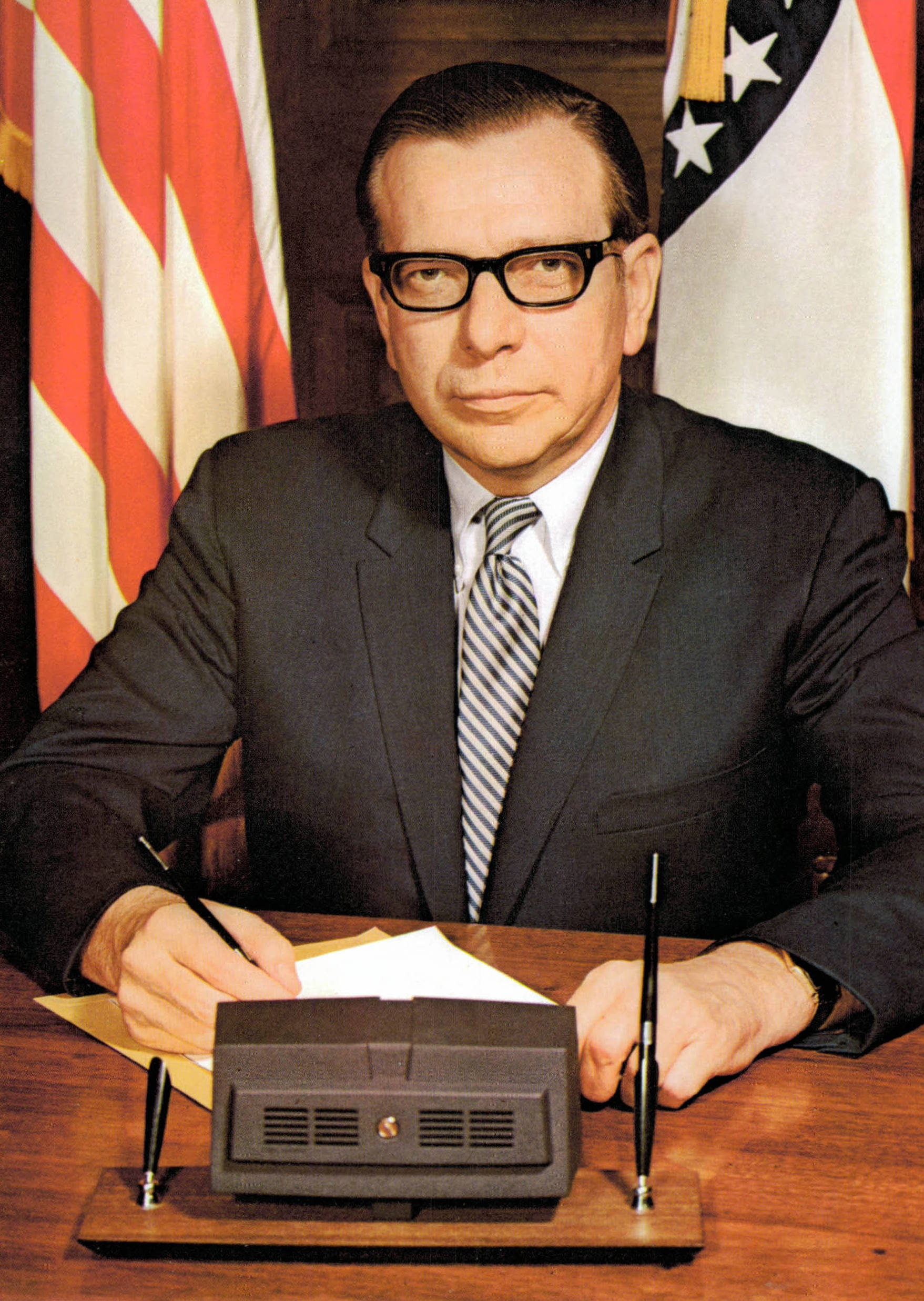 William S. Morris was the Lieutenant Governor of Missouri (1969–73)